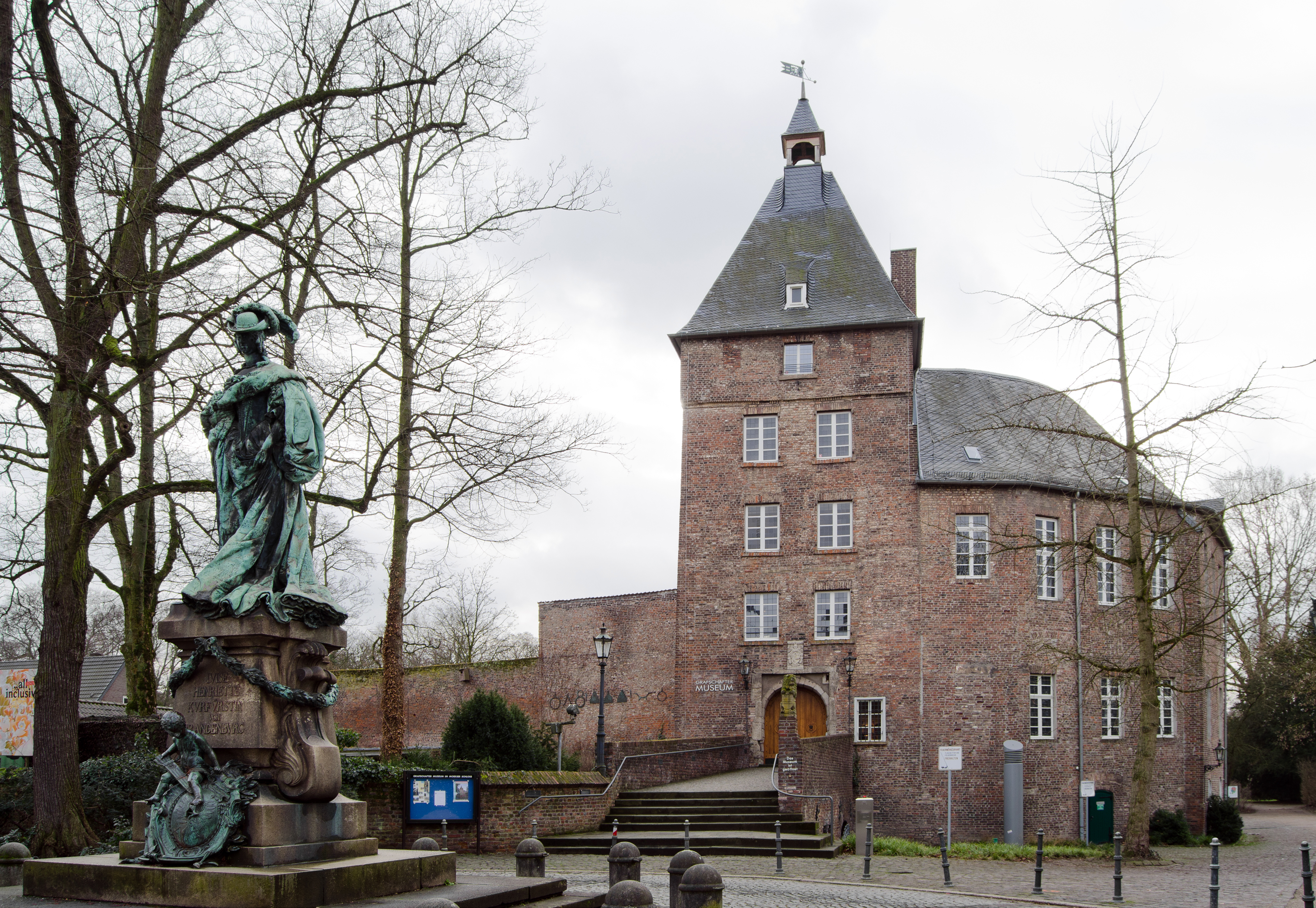 Moers (North Rhine-Westphalia, Germany) – Castle and Statue of Countess Louise Henriette of Nassau This image shows a heritage building in Germany, located in the North Rhine-Westphalian city Moers (no. 1, 91). This photograph was taken with a Nikon D7000